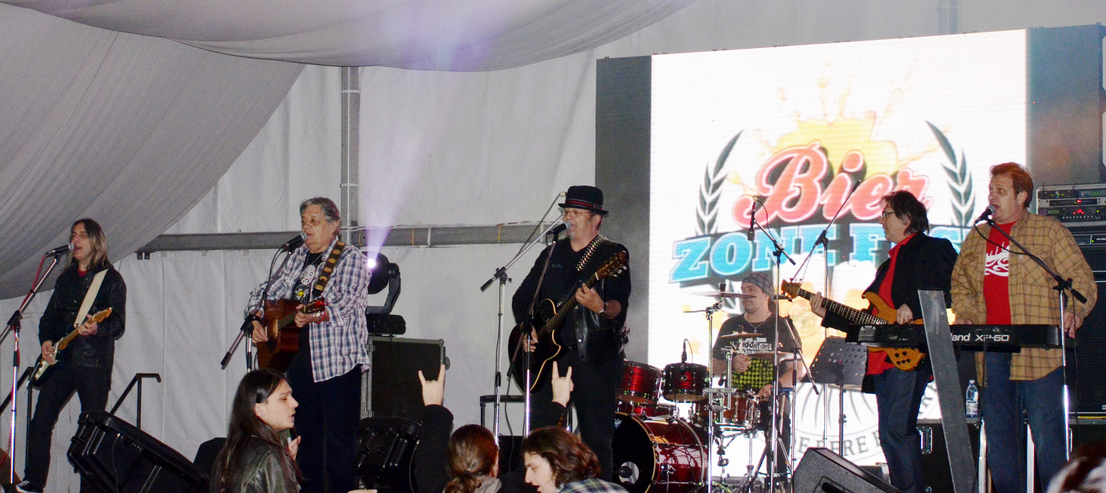 Pasărea Colibri concert, at Bier Zone Fest 2012 From left to right: Teo Boar, Mircea Vintilă, Mircea Baniciu, Cristi Iorga, Marian Mihăilescu, Vlady Cnejevici